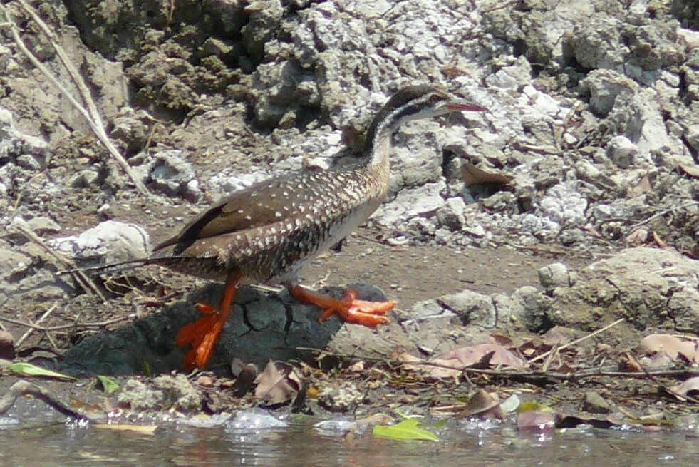 African Finfoot on the Riverbank of the Kafue River Zambia